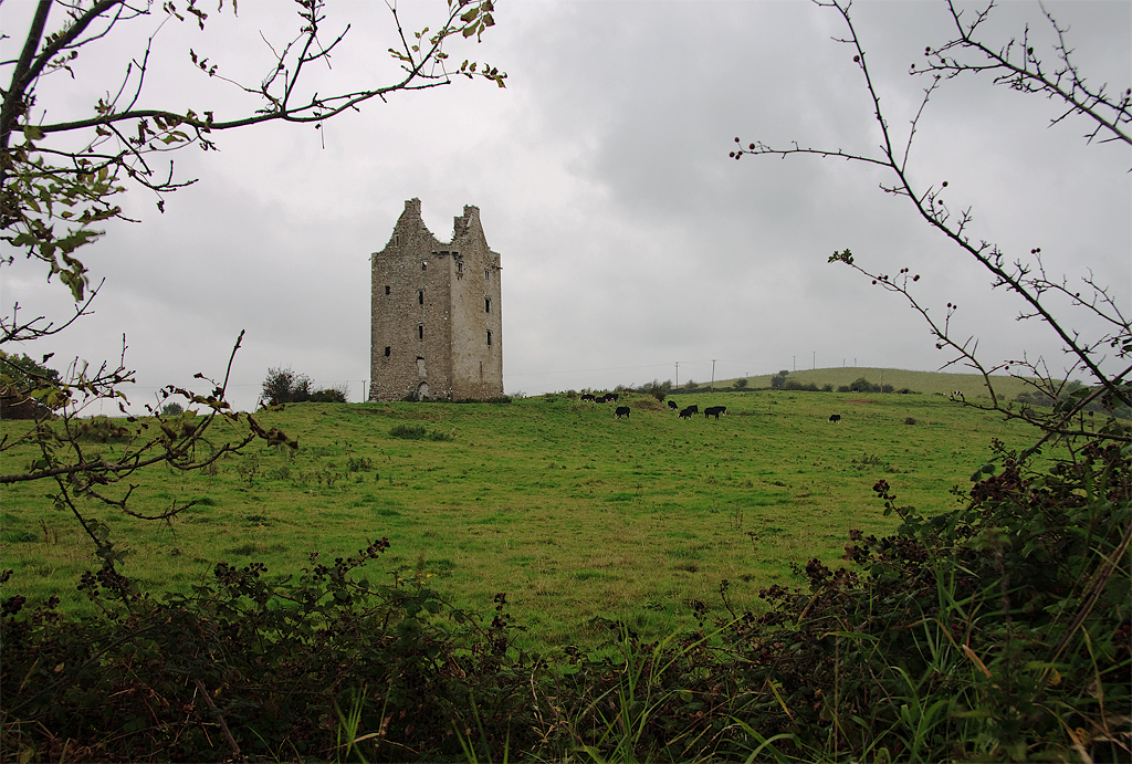 Castles of Munster: Oola, Limerick Not far from the main Limerick to Tipperary road is Oola, a late C16 O'Brien tower, its roofless gables rising above circular bartizans on the NE and SW corners. The upper levels have two light windows with hoodmoulds, and inside, the east and west walls still have their original fireplaces.